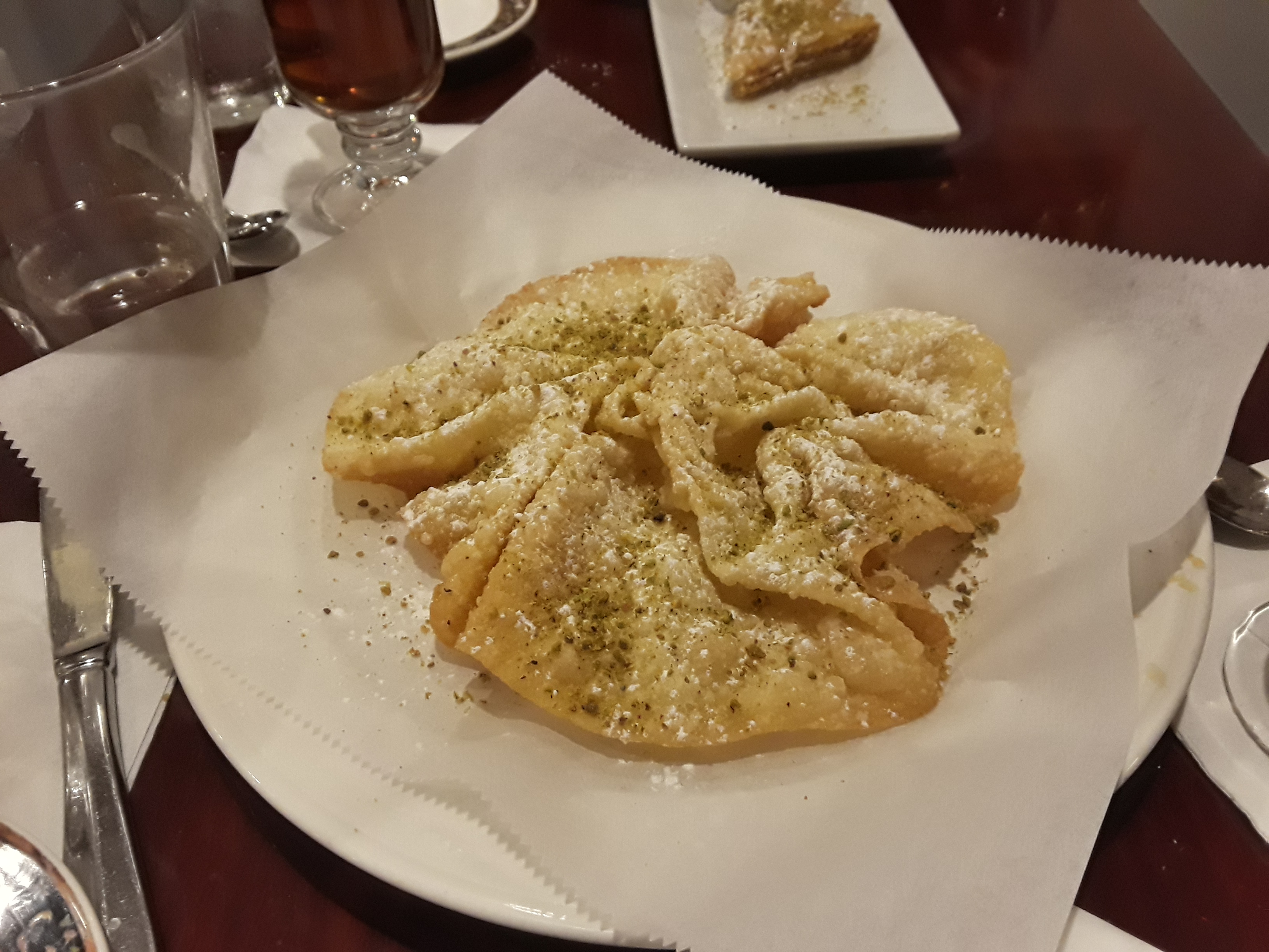 Panjshir Restaurant, Falls Church, Virginia